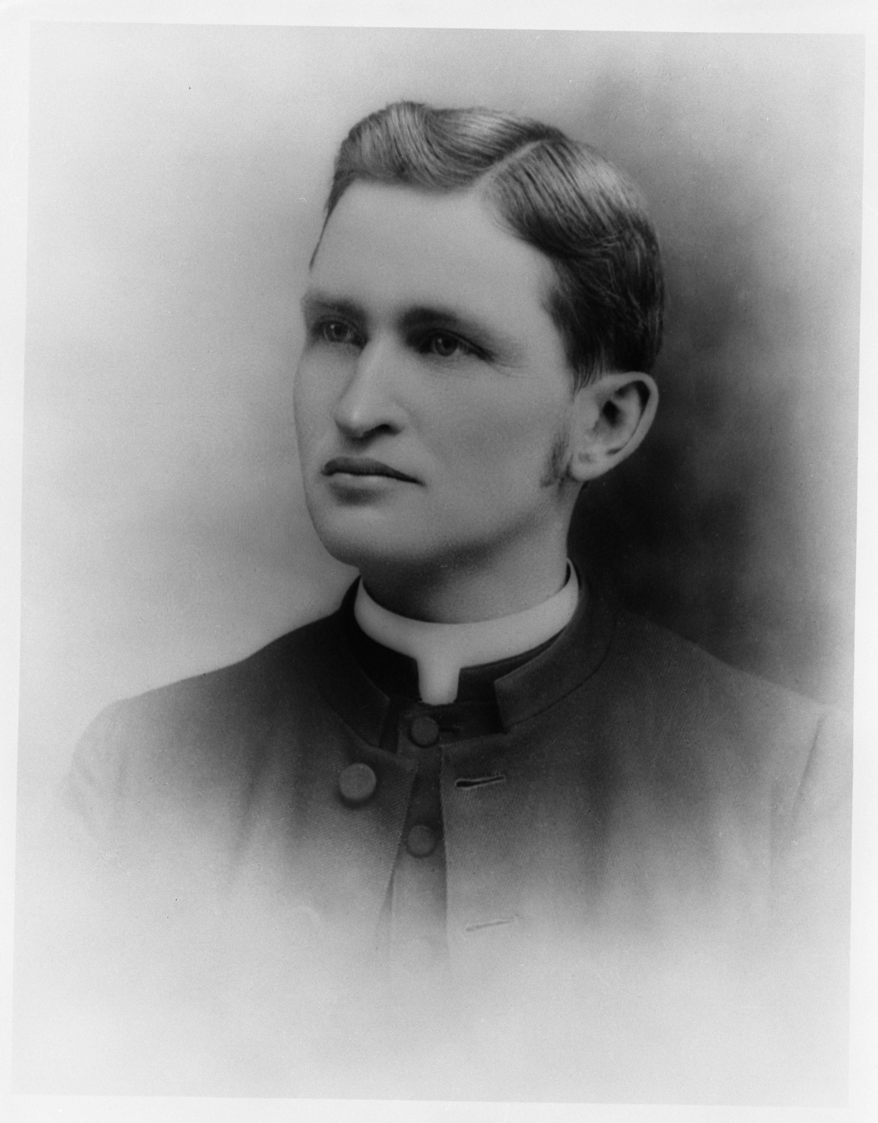 Portrait of Crawford R. Thoburn, President & Chancellor of the University of Puget Sound from the Archives & Special Collections at the University of Puget Sound, Tacoma Wa